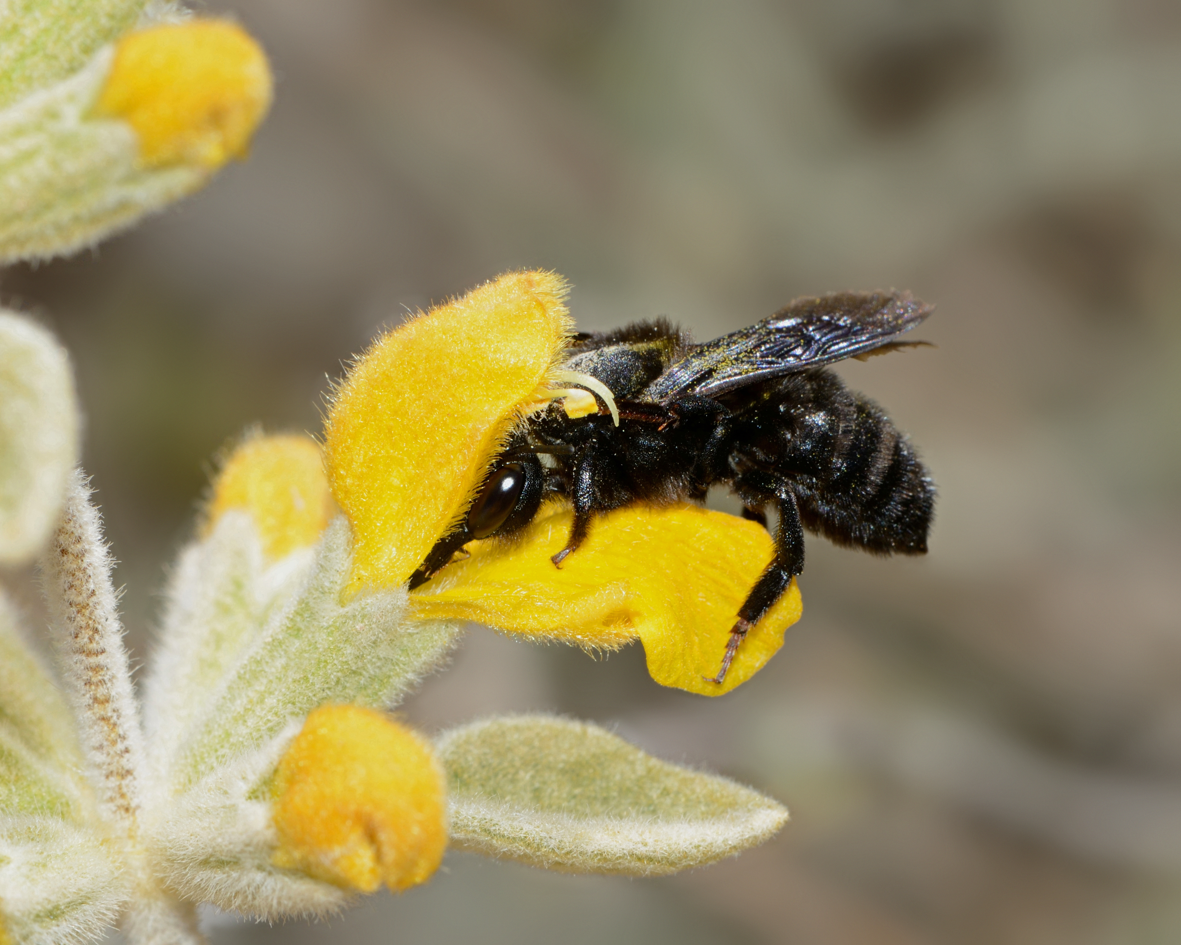 Megachile (Chalicodoma) parietina, female collecting nectar from Phlomis Brachyodon, Lahav Hills, Northern Negev, Israel, April 16 2012.